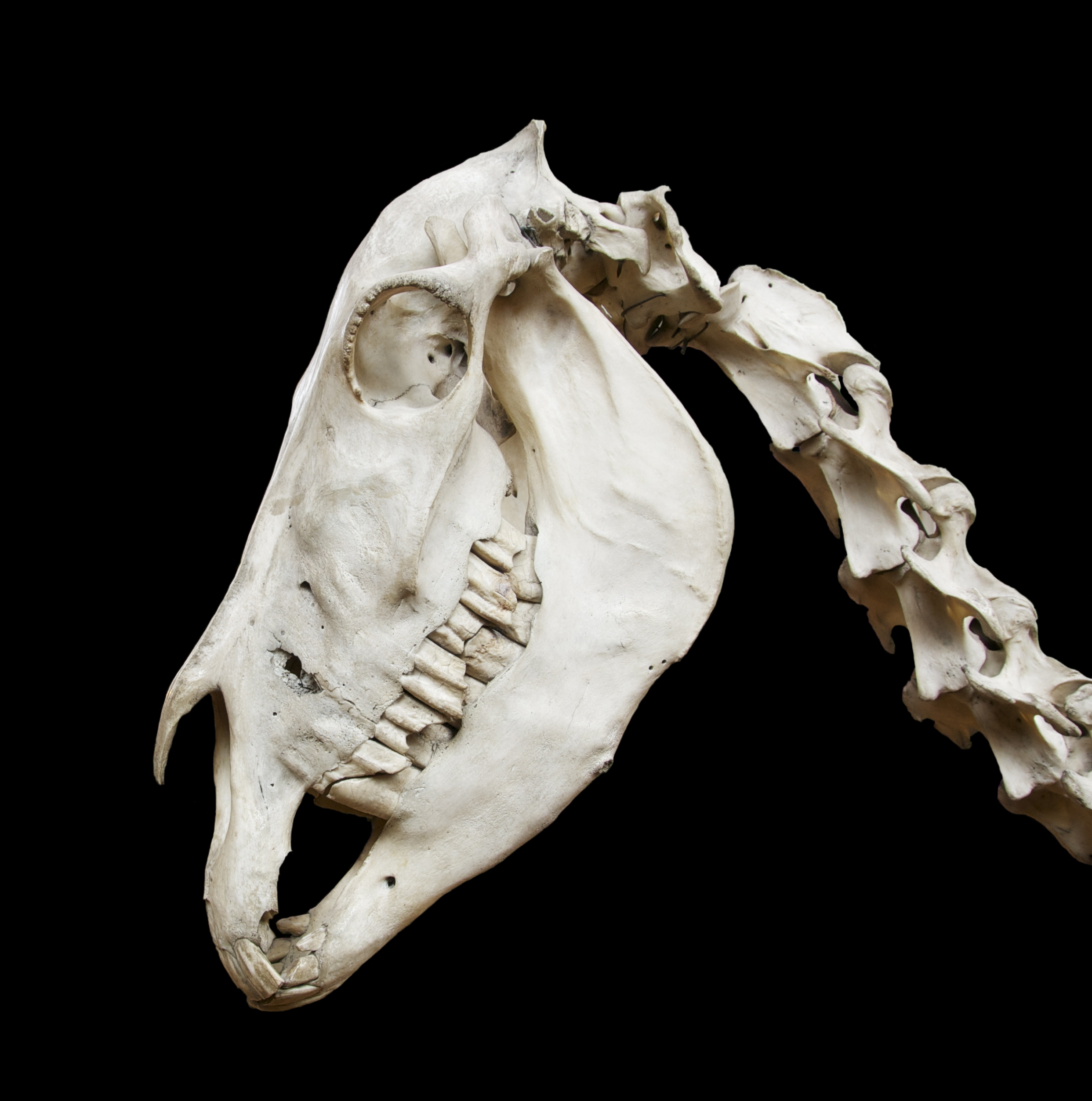 Equus hemionus kulan. Onager. Skull & neck vertebrae of a specimen from northern India, collected by Dussumier in 1838 for the french National Museum of Natural History in Paris. On display at Gallery of Paleontology and Compared Anatomy. Kulan is a Critically endangered subspecies.